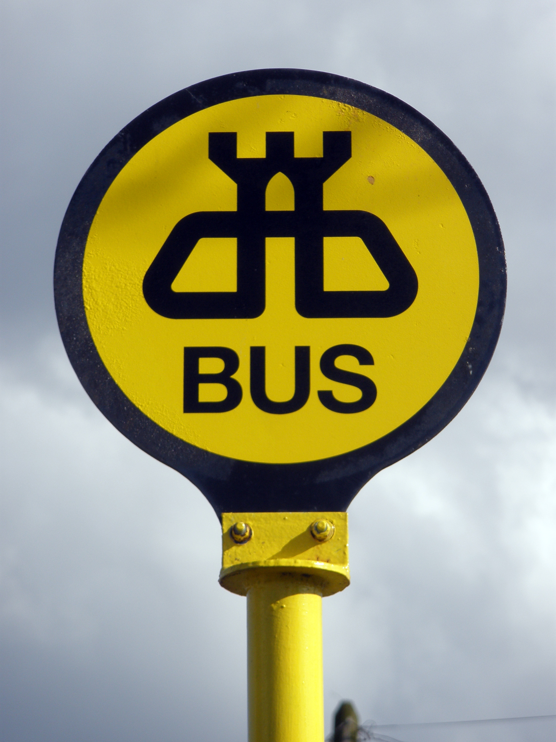 54A bus stop operated by Dublin Bus on Templeville Road, Dublin, Ireland.